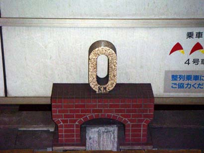 0km Post of Chuo Line at Tokyo Station, Chiyoda, Tokyo, Japan. Ph.